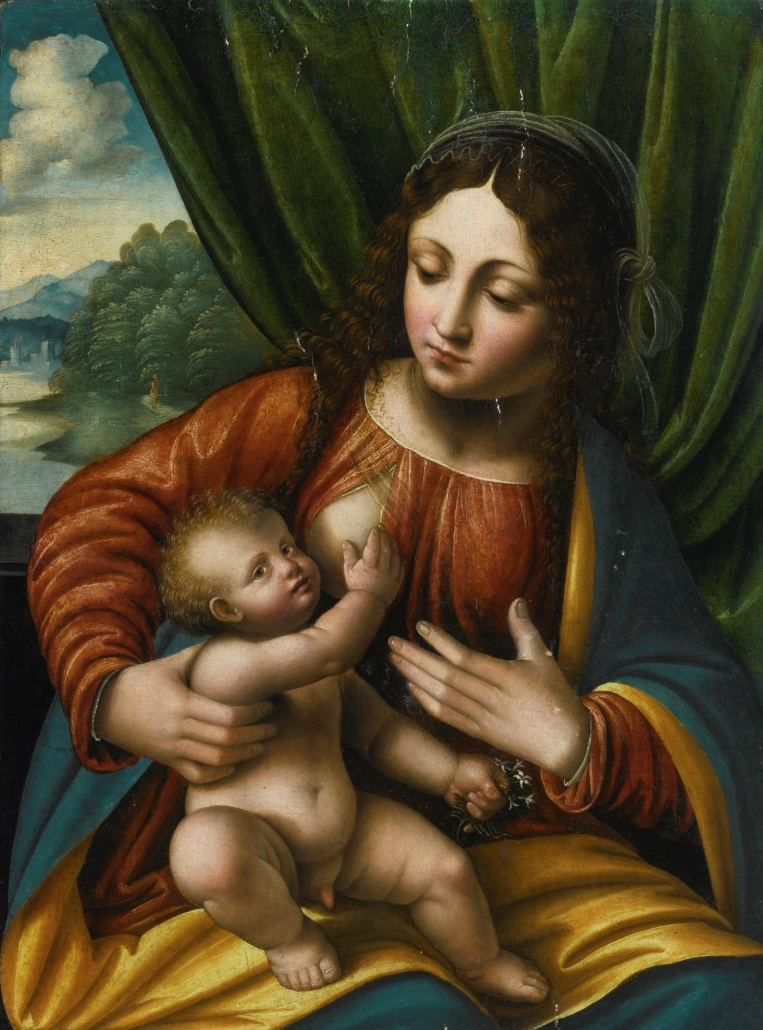 The Madonna and Child before a Green Curtain and a Window with a Mountainous River Landscape beyond by Cesare Magni, oil on panel, 59 by 43.6 cm.